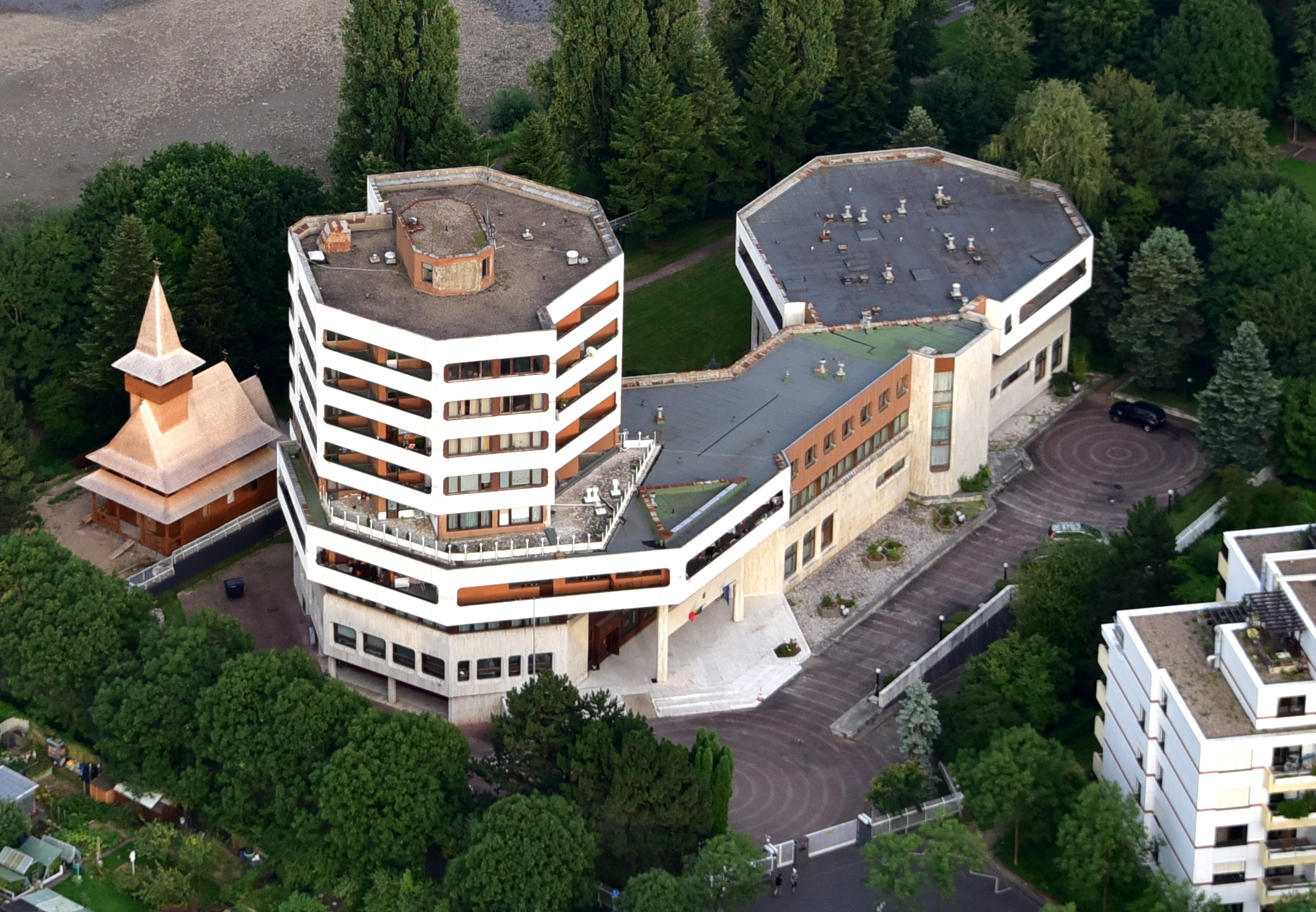 Consulate-general of Romania in Bonn, Legionsweg 14